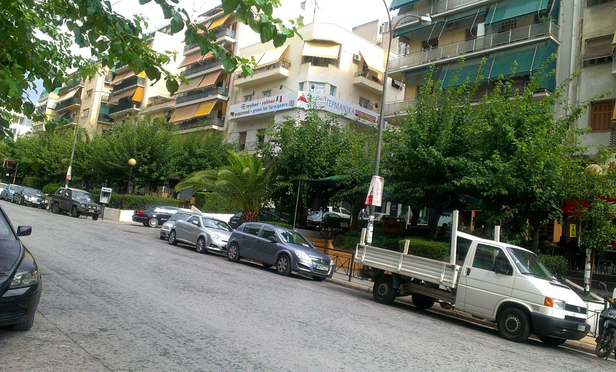 ymittou